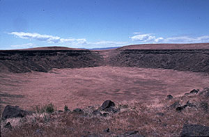 Volcanic craters at the summit of a broad shield volcano. Near Mountain Home, Idaho. For the article Crater Rings (Idaho)